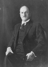 former Senator Thomas du Pont of Delaware.